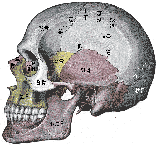 Side view of the skull.